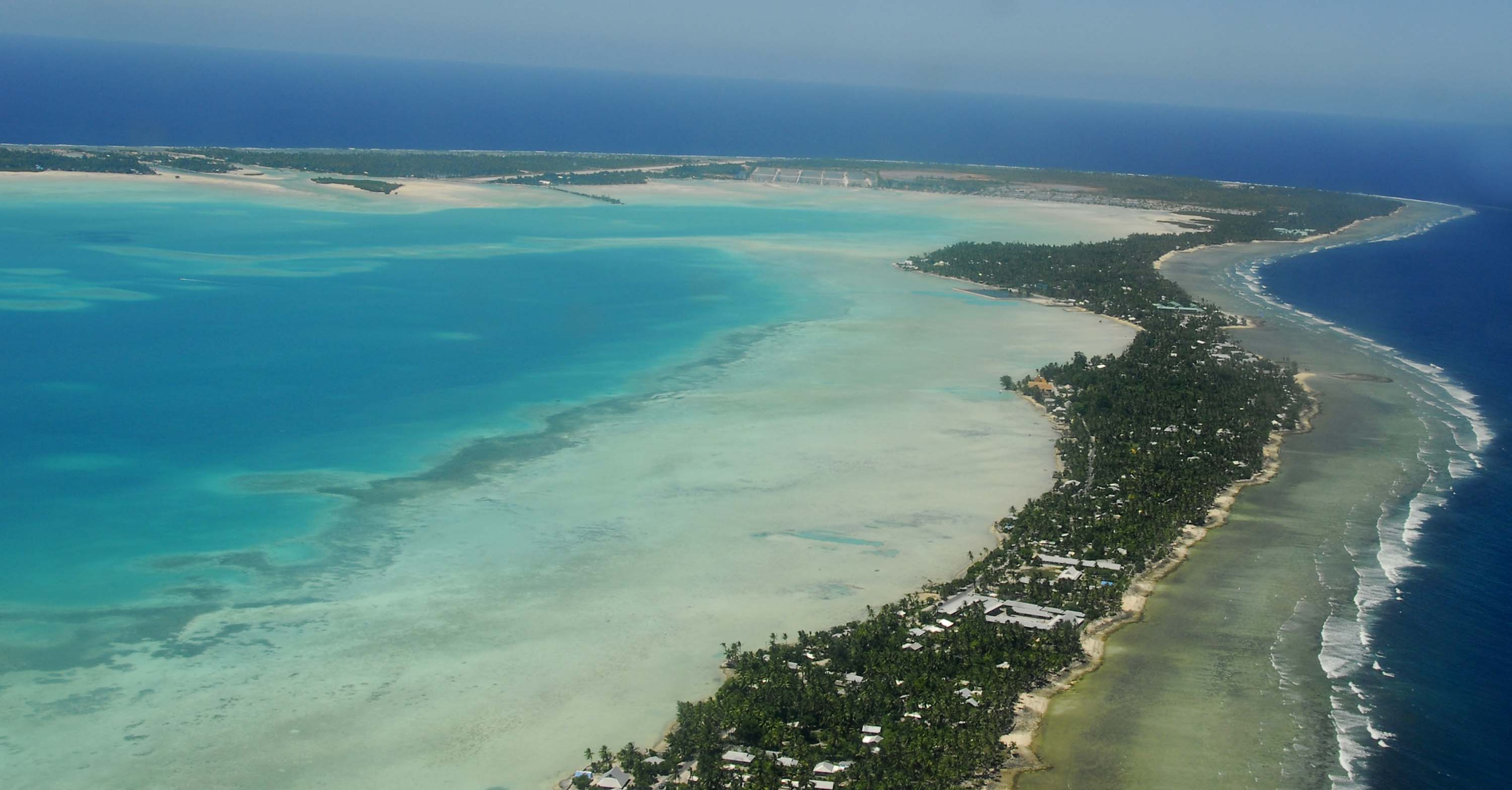 South Tarawa is a narrow strip of land between the lagoon and the ocean